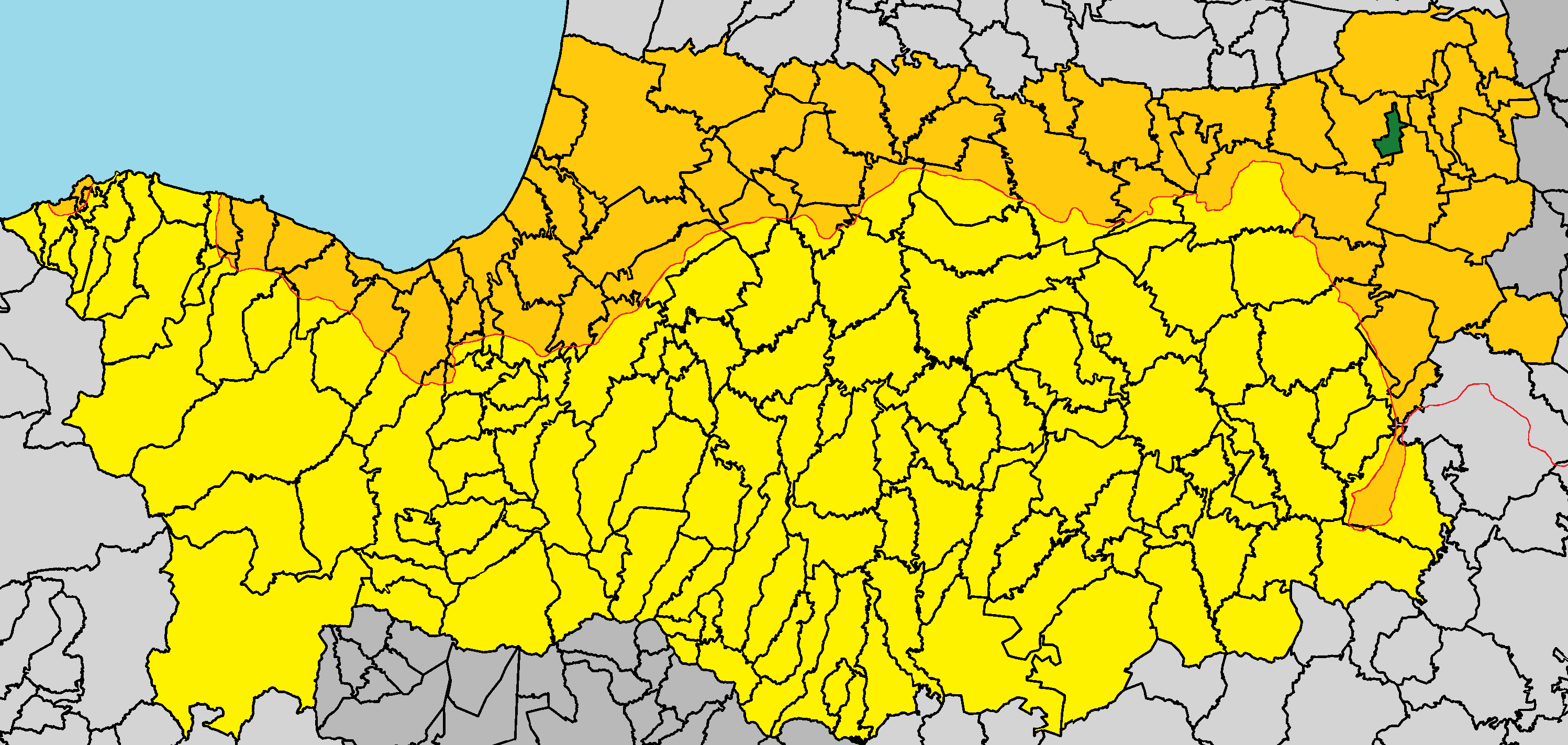 Trachoni in Nicosia District (de jure).